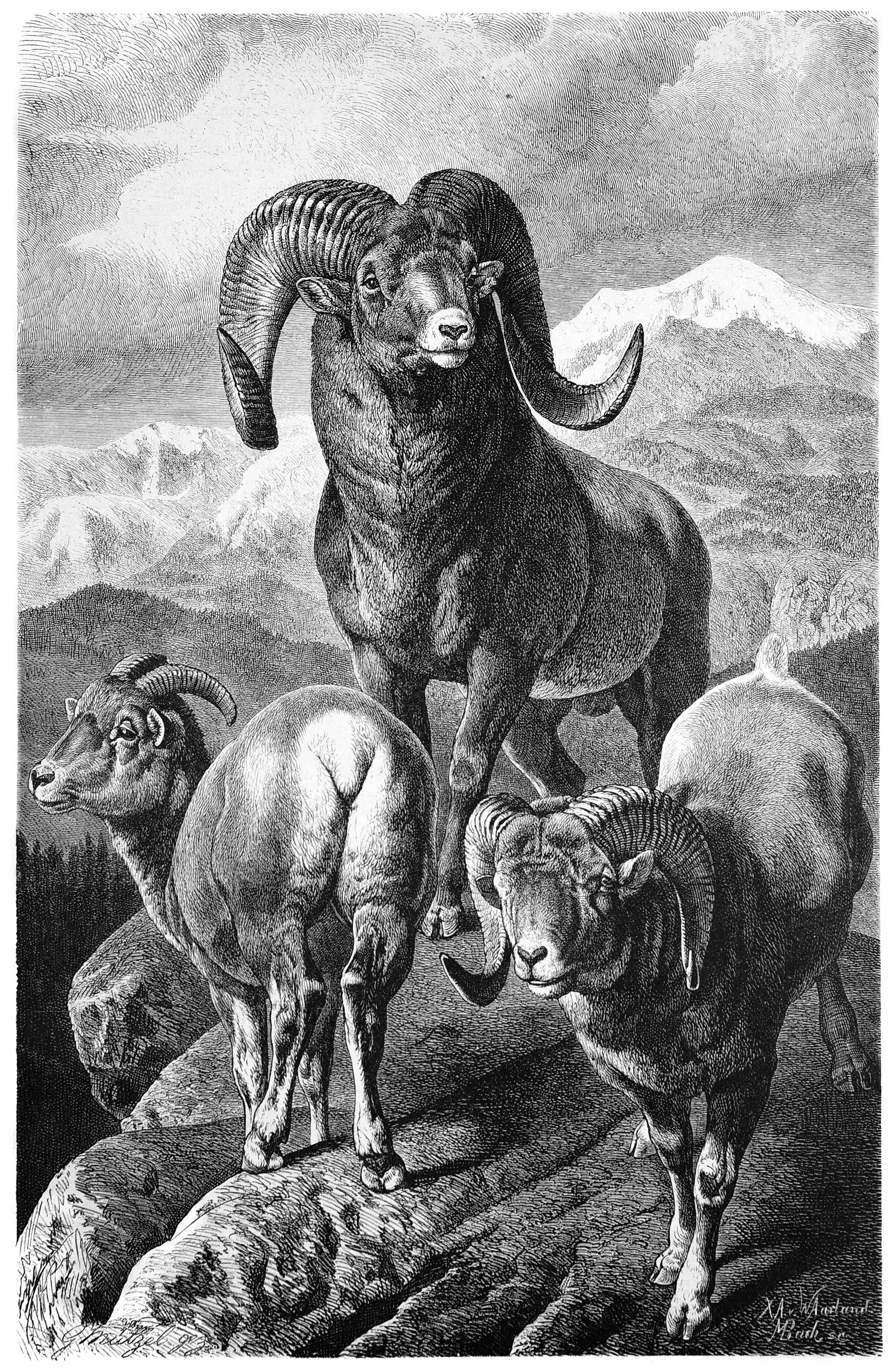 caption: "Argalischafe im Altai. Nach Vorlagen des Dr. Brehm auf Holz gezeichnet von G. Mützel."